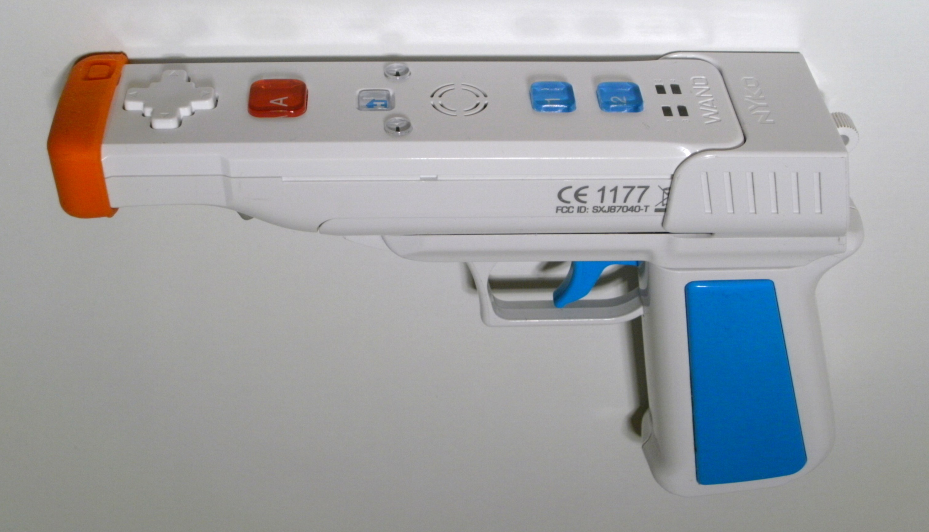 A Nyko Wand (third-party Wii Remote alternative) seated in the Pistol Grip, a light gun shell.